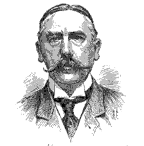 Portrait of William Baumgarten from The National Cyclopedia of American Biography, Volume XI, 1901, page 466